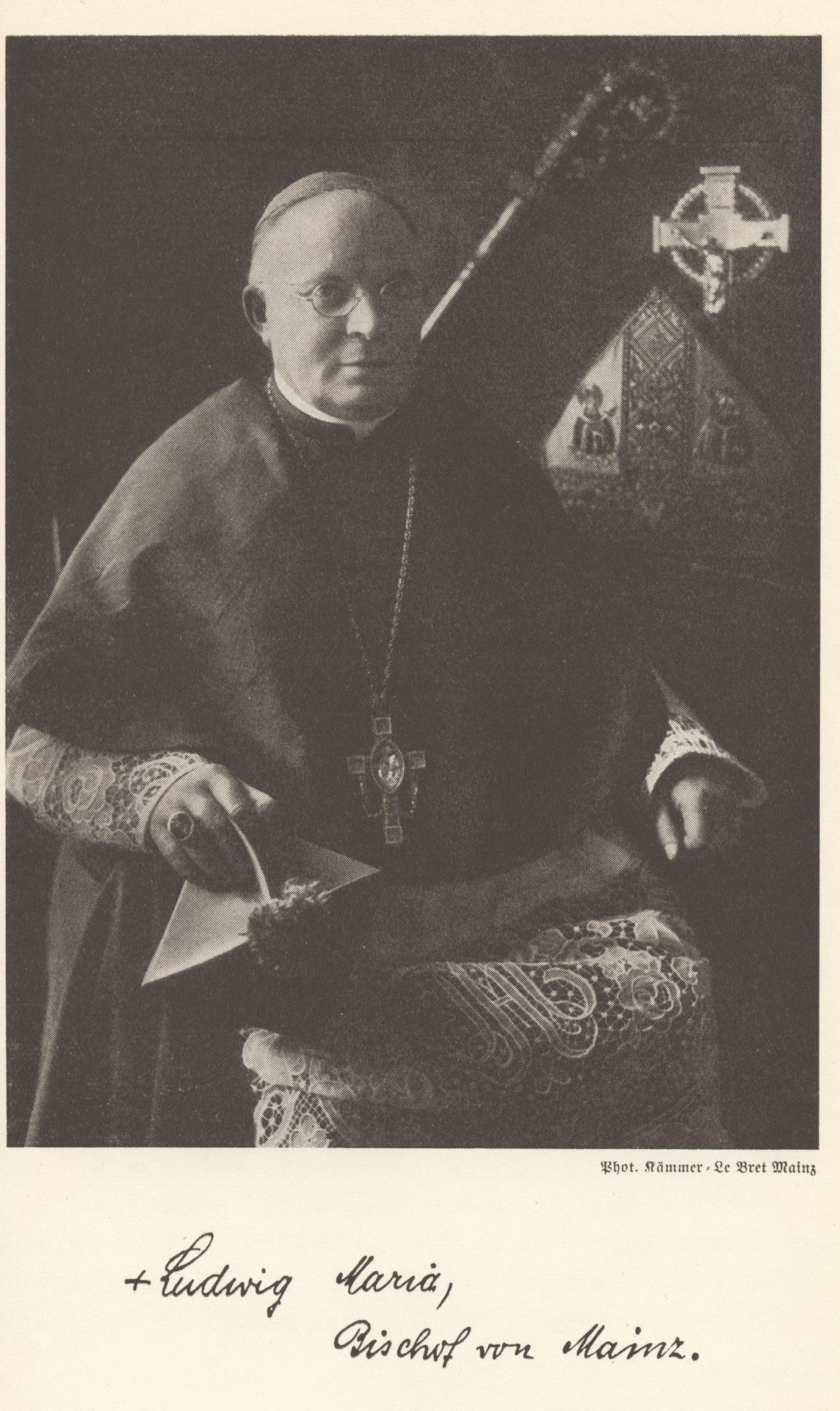 Bischof Ludwig Maria Hugo, Mainz